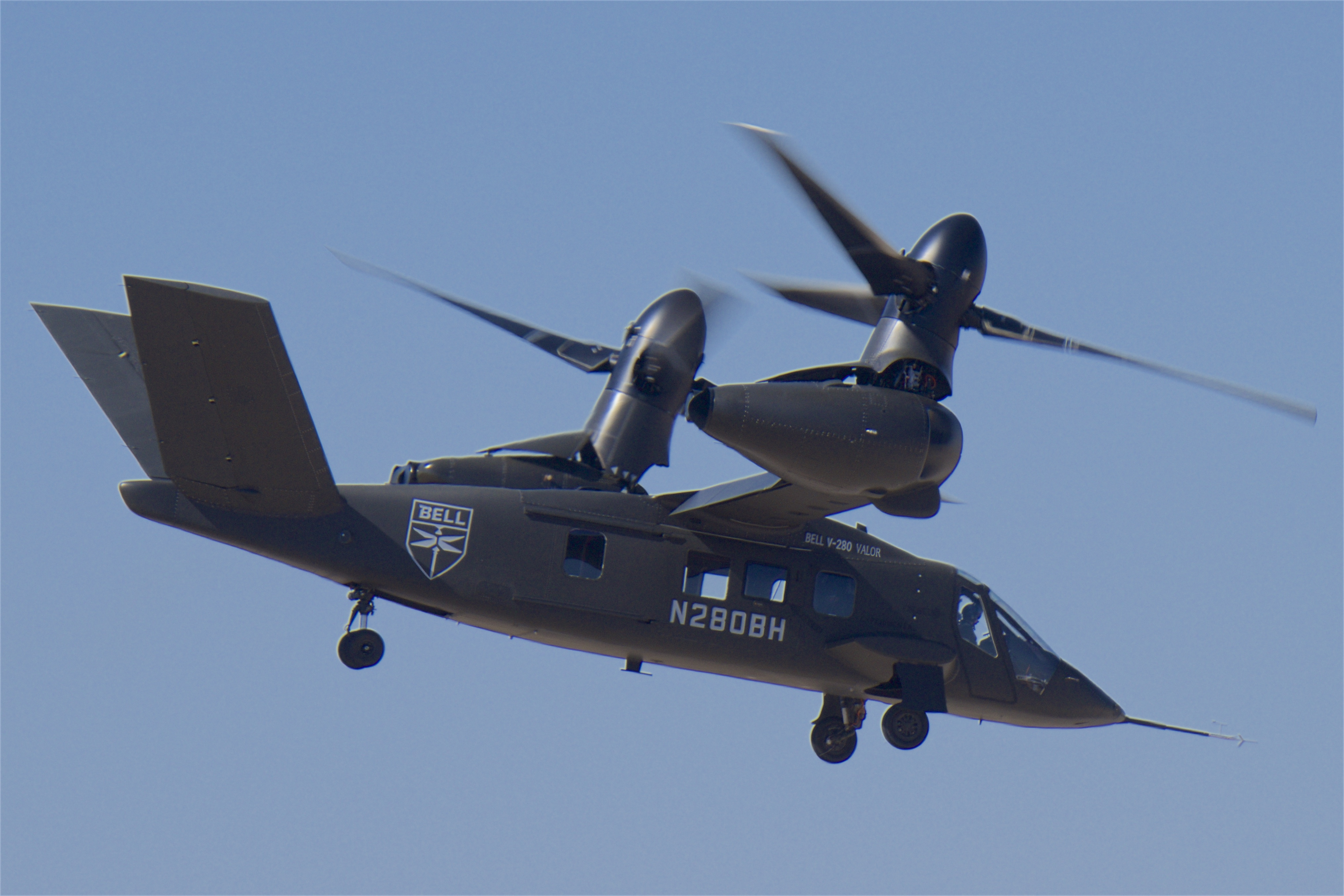 Bell V-280 Valor demonstrating vertical takeoff capability, 2019 Alliance Air Show, Fort Worth, TX.